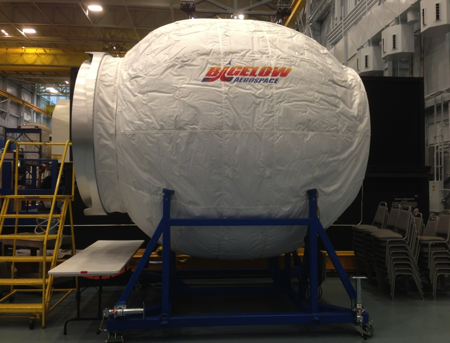 None.